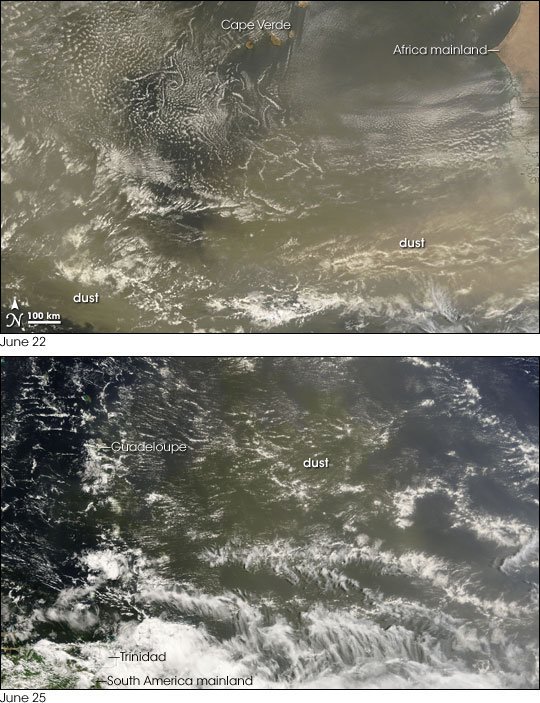 The June 22 image shows the massive dust plume blowing off the west coast of Africa toward the west in a slightly clockwise direction. As the dust blows, vortex streets—swirling clouds that occur in the wake of air-flow obstacles such as islands—meander southward from Cape Verde. Cape Verde receives regular doses of African dust, but dust often travels much farther west, as the June 25 image shows. Although less distinct than it appeared three days earlier, the plume is still discernible as it approaches the Caribbean and mainland South America. In the south, cloud cover obscures the view of the plume.